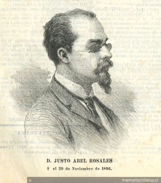 Justo Abel Rosales